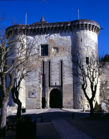 The Porte Royale of the Château de Loches